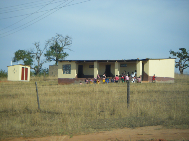 I haven't spent any time at any schools here, but we pass them as we drive around the countryside. This group of elementary school kids sitting in chairs outside the school all turned, waved, and shouted hello when they saw us. School buildings leave much to be desired by Western standards. I hope to get more pictures before I leave.